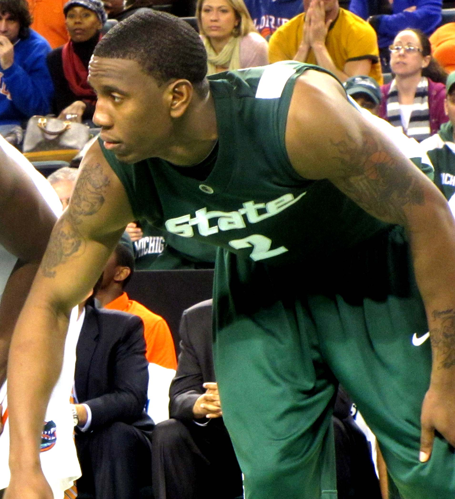 Raymar Morgan of the Michigan Spartans men's basketball team waiting for a free throw attempt